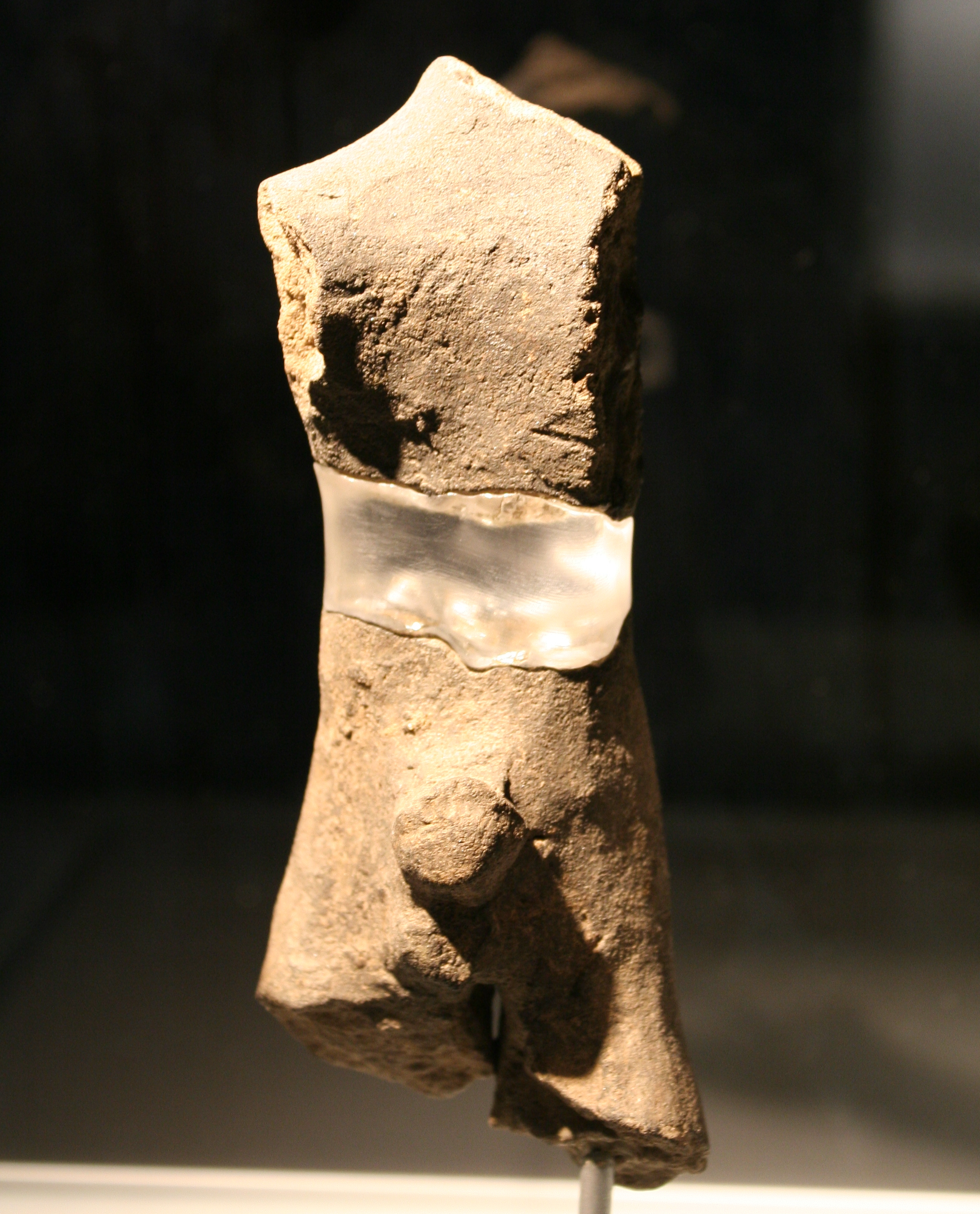 Adonis of Zschernitz; Staatliches Museum für Archäologie, Chemnitz